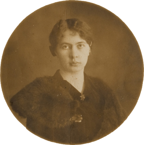 Zos'ka Veras